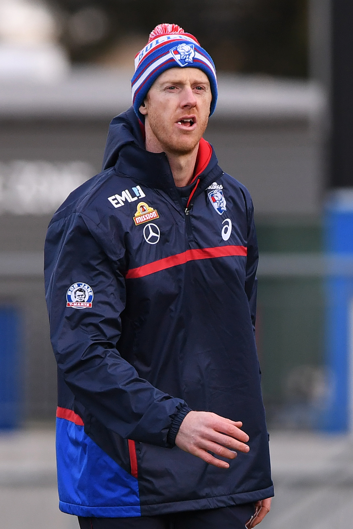 Ashley Hansen of the Western Bulldogs during Western Bulldogs training on 7 August 2018 at Whitten Oval in Melbourne, Victoria.